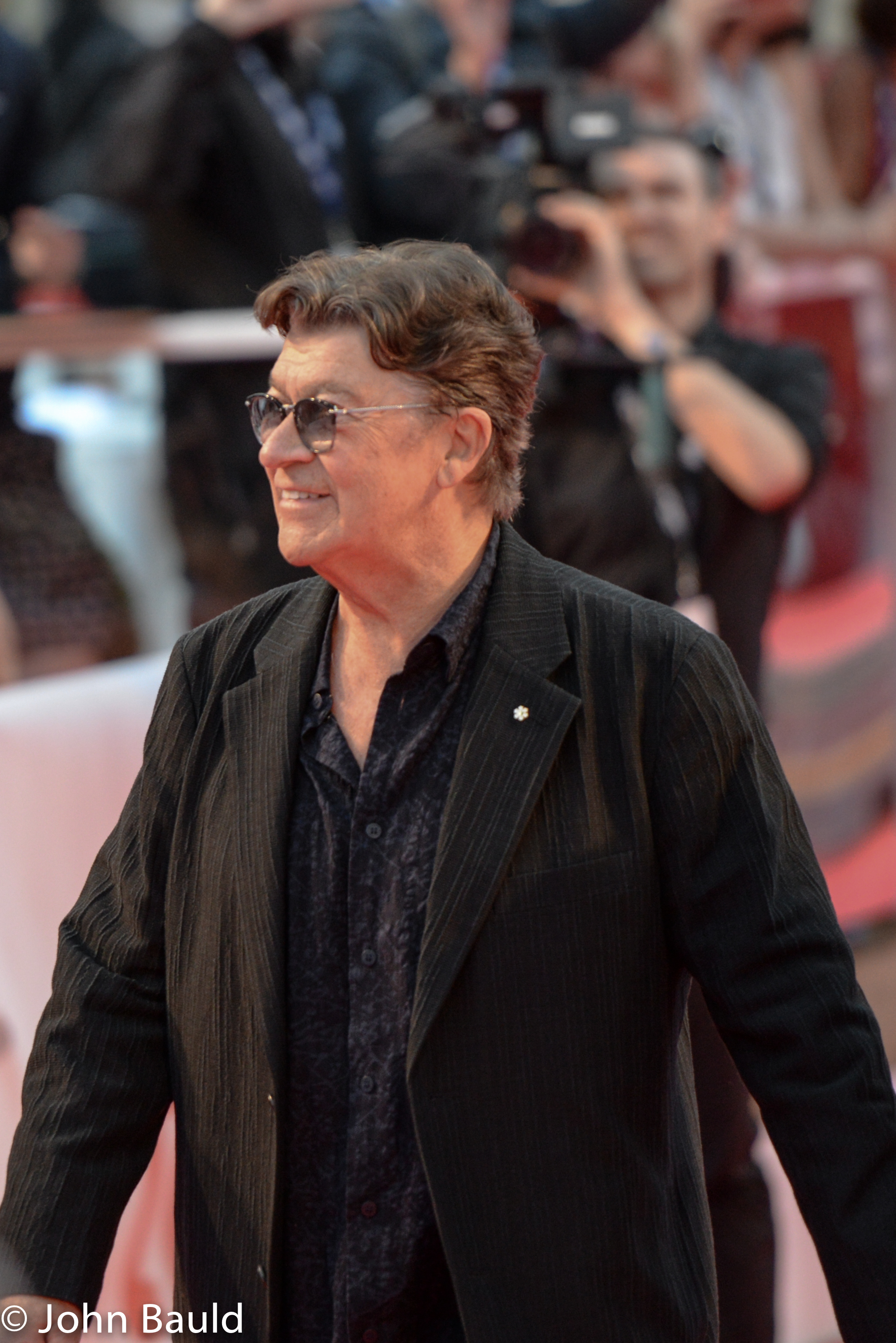 Once Were Brothers: Robbie Robertson and the Band is a Canadian documentary film, directed by Daniel Roher and released in 2019.[1] A portrait of the influential roots rock group The Band, the film is based in part on Robbie Robertson's 2017 memoir Testimony. The film is slated to premiere on September 5, 2019 as the opening film of the 2019 Toronto International Film Festival, the first time the festival has ever selected a Canadian documentary film as its opening gala.